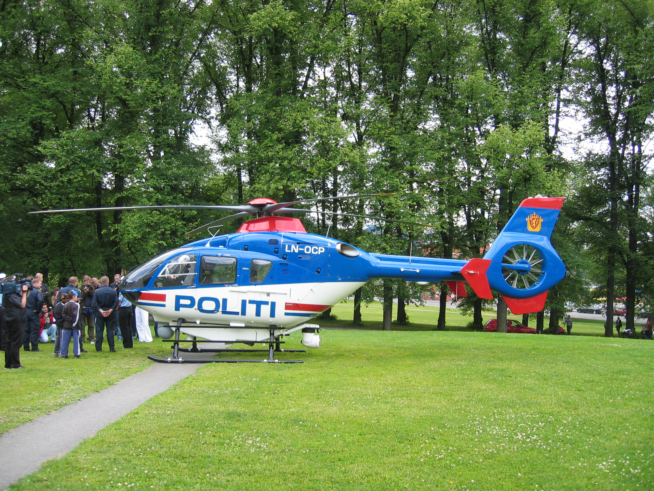 Norwegian Police Helicopter Eurocopter EC-135